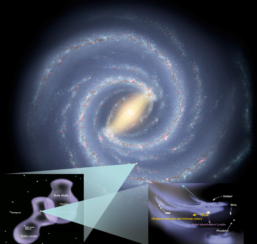 The position of our Sun in our Galaxy; photomontage of images: Image:Milky Way 2005.jpg, Image:Localcloud it.gif and Image:Local bubble it.png